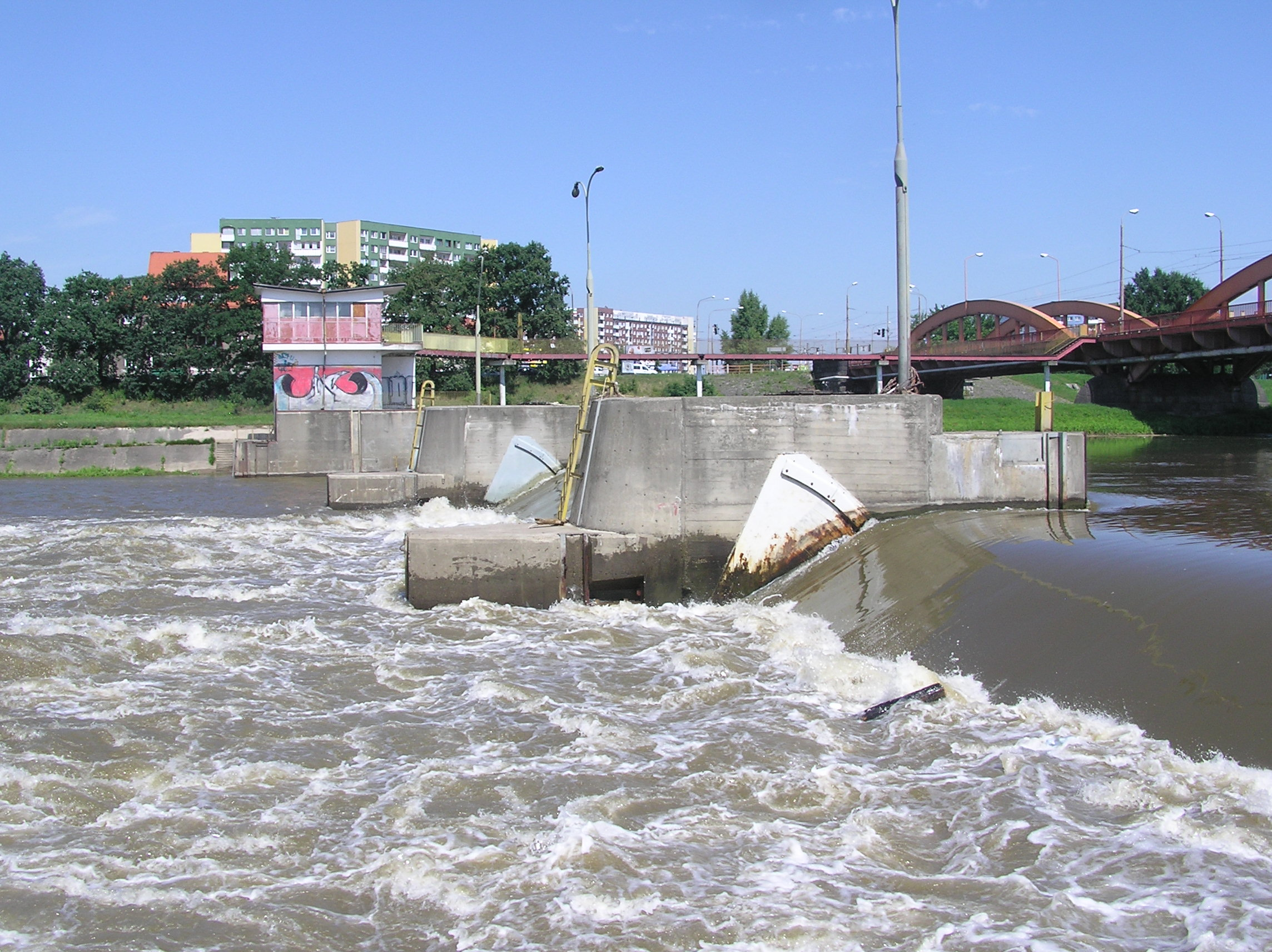 Wrocław, Oder River, Stara Odra, Różanka weir